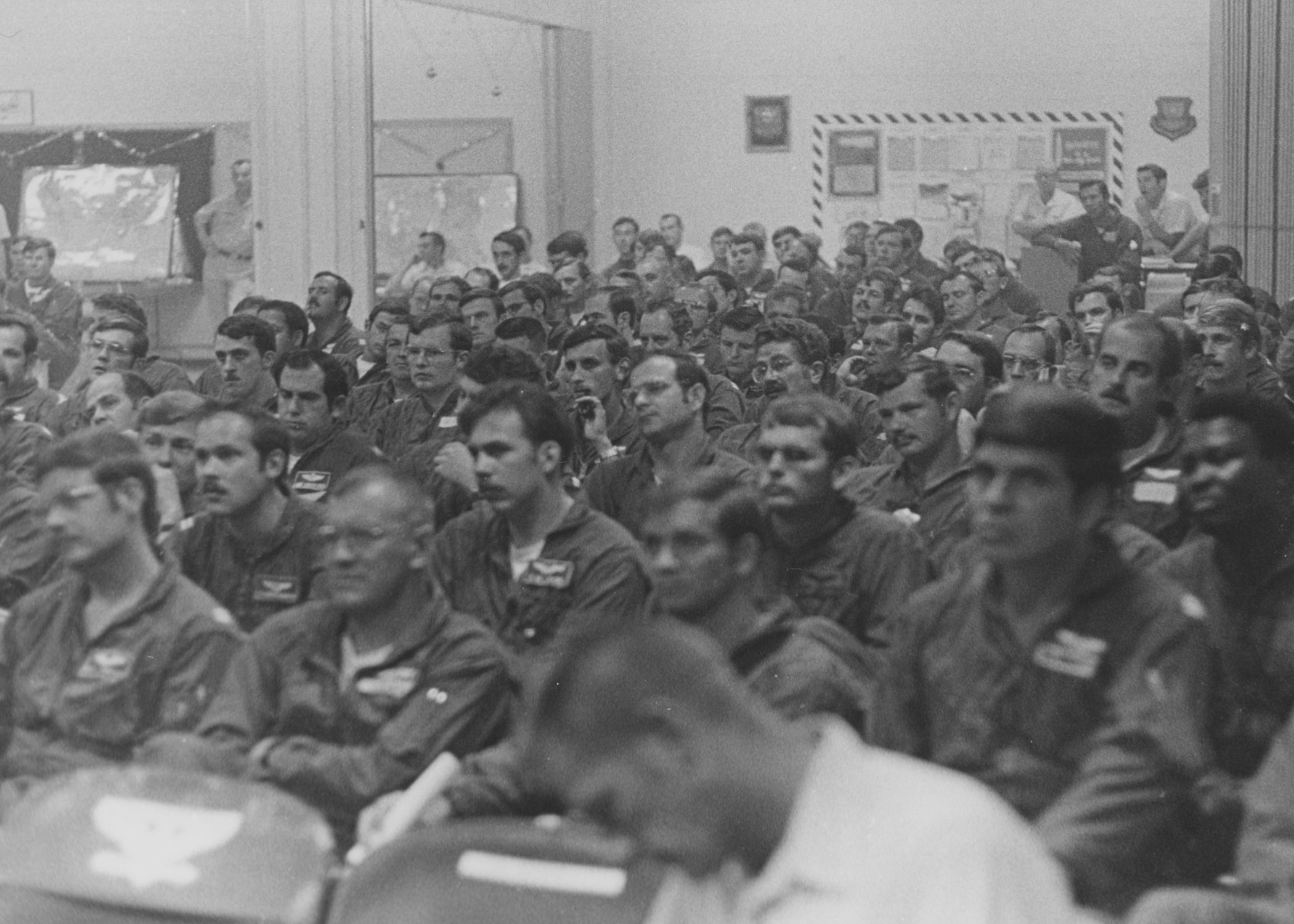 United States Air Force B-52 bombing crews at Andersen Air Base in Guam being briefed on the U.S.'s final major aerial bombing campaign in North Vietnam, Operation Linebacker II.